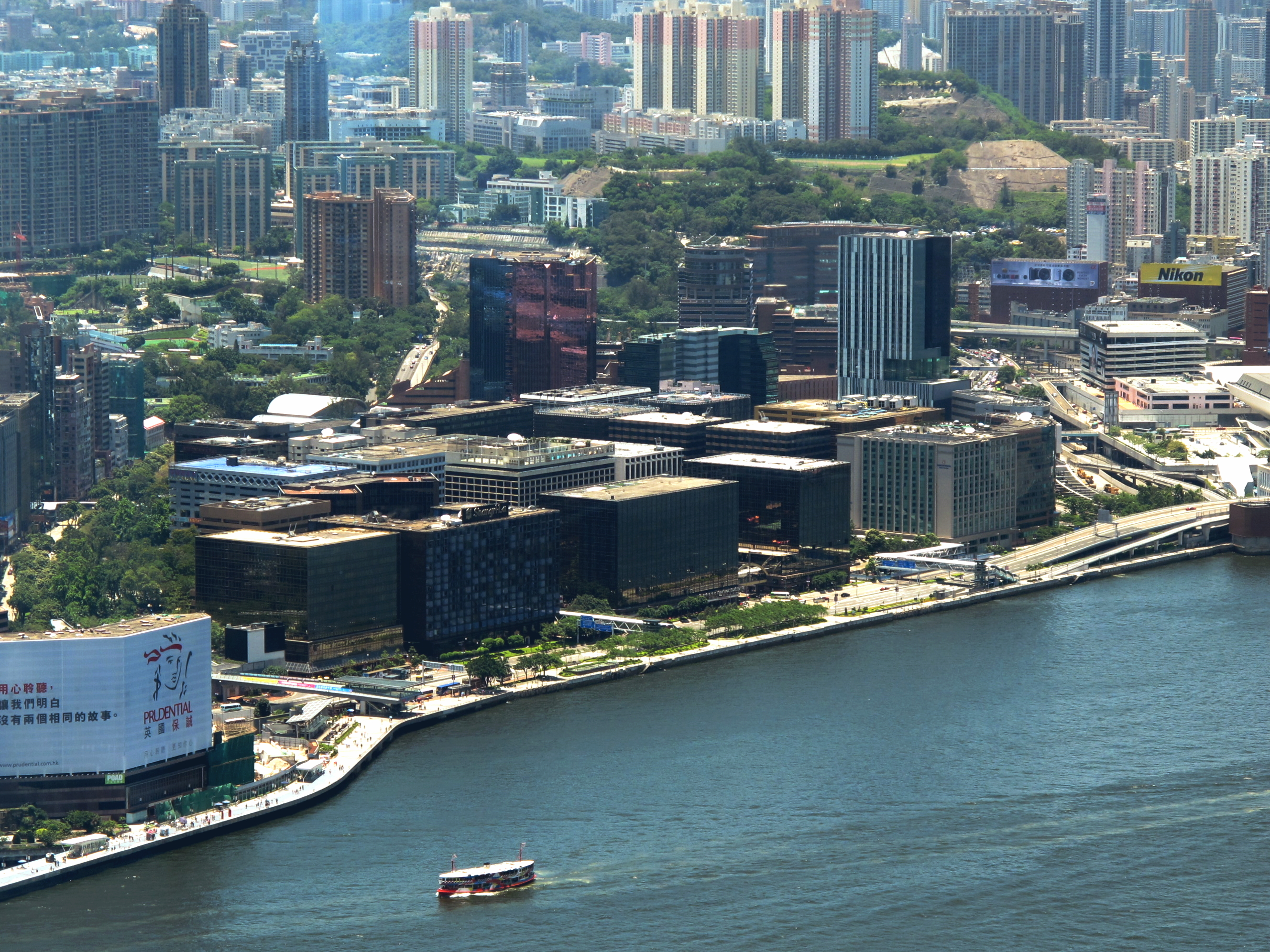 Tsim Sha Tsui East Buildings